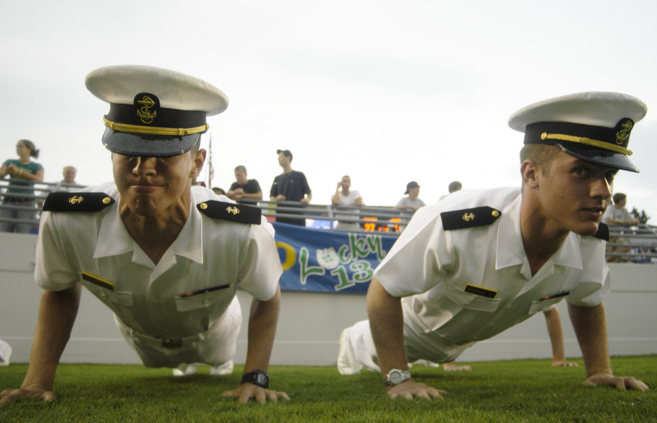 Annapolis, Md. (Aug 30, 2003) -- U.S. Naval Academy Midshipmen (Mid'n) do push-ups following a touchdown during Navy's football season opener against Virginia Military Institute (VMI). First year Mids must do a push-up for every point scored. The Mids outscored the Keydets 37-10 and outgained VMI 598-296. The win snapped a 14-game home losing streak dating back to the 1999 season in the recently renovated Jack Stephens Field at Navy-Marine Corps Stadium. U.S. Navy photo by Photographer's Mate 2nd Class Damon J. Moritz. (RELEASED)